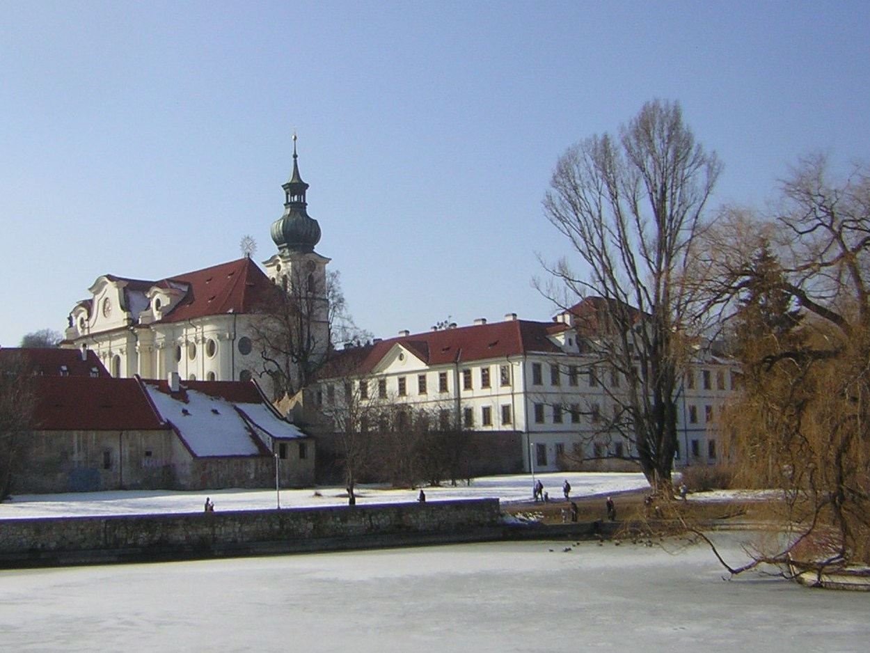 Praha Břevnov monastery from SE